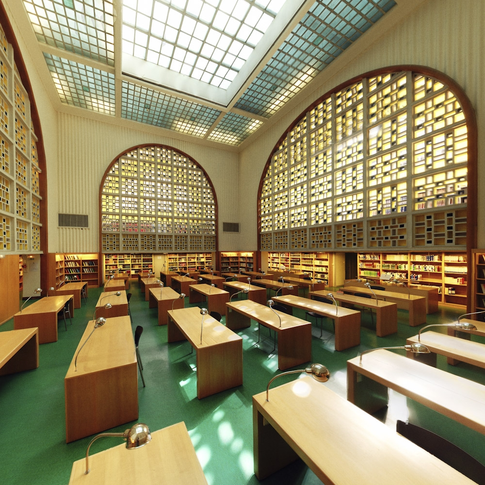 Room 4 by the BNU before the transformation of the building starting in 2012. The room as shown does not exist anymore.